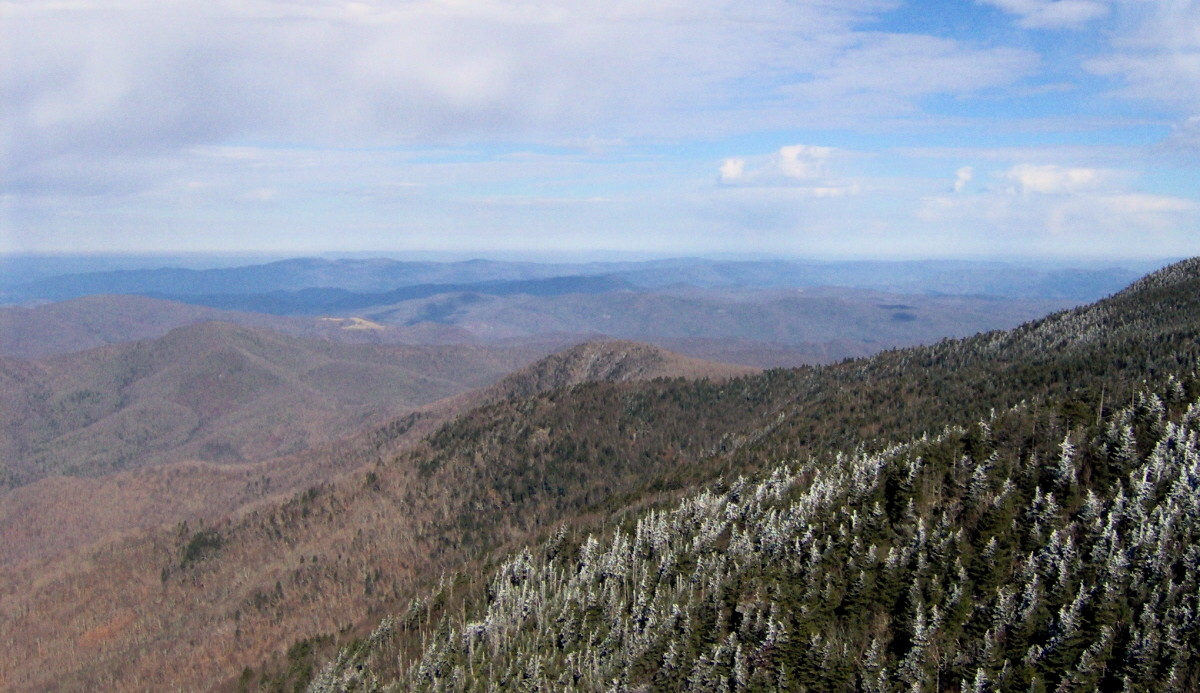 View across the north slope of Roan Mountain in the U.S. state of Tennessee. This view is from the observation platform just below the summit of Roan High Bluff. The leaves have fallen from the deciduous trees (lower left and beyond), giving them a dull brown canopy that is easily distinguishable from the still-green spruce-fir canopy on the right.